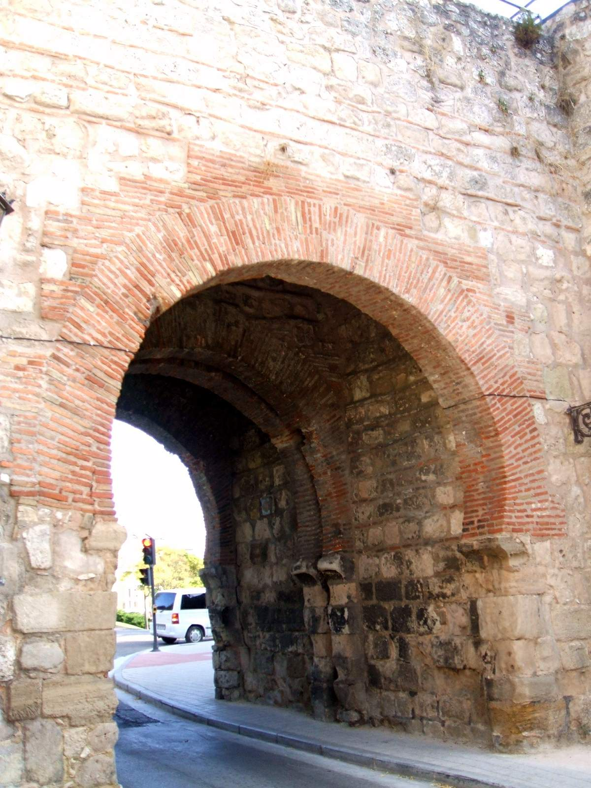 Arco de San Martín, Burgos (Castilla y León, España)